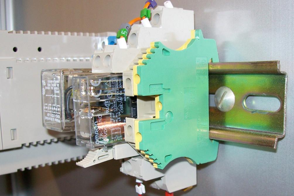 DIN-rail (TS35) with some mounted electrical equipment